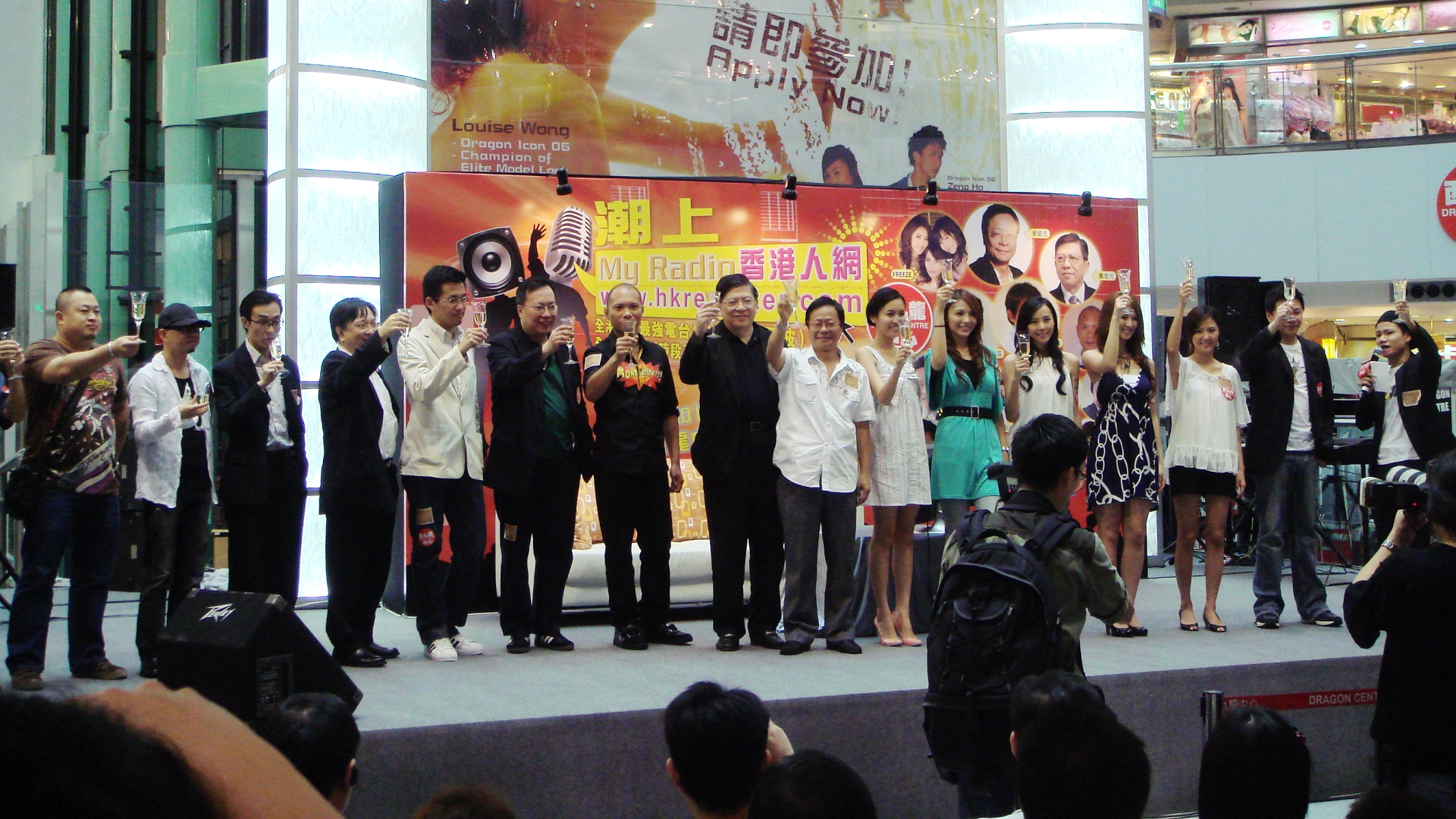 Hong Kong MyRadio Show Hosts